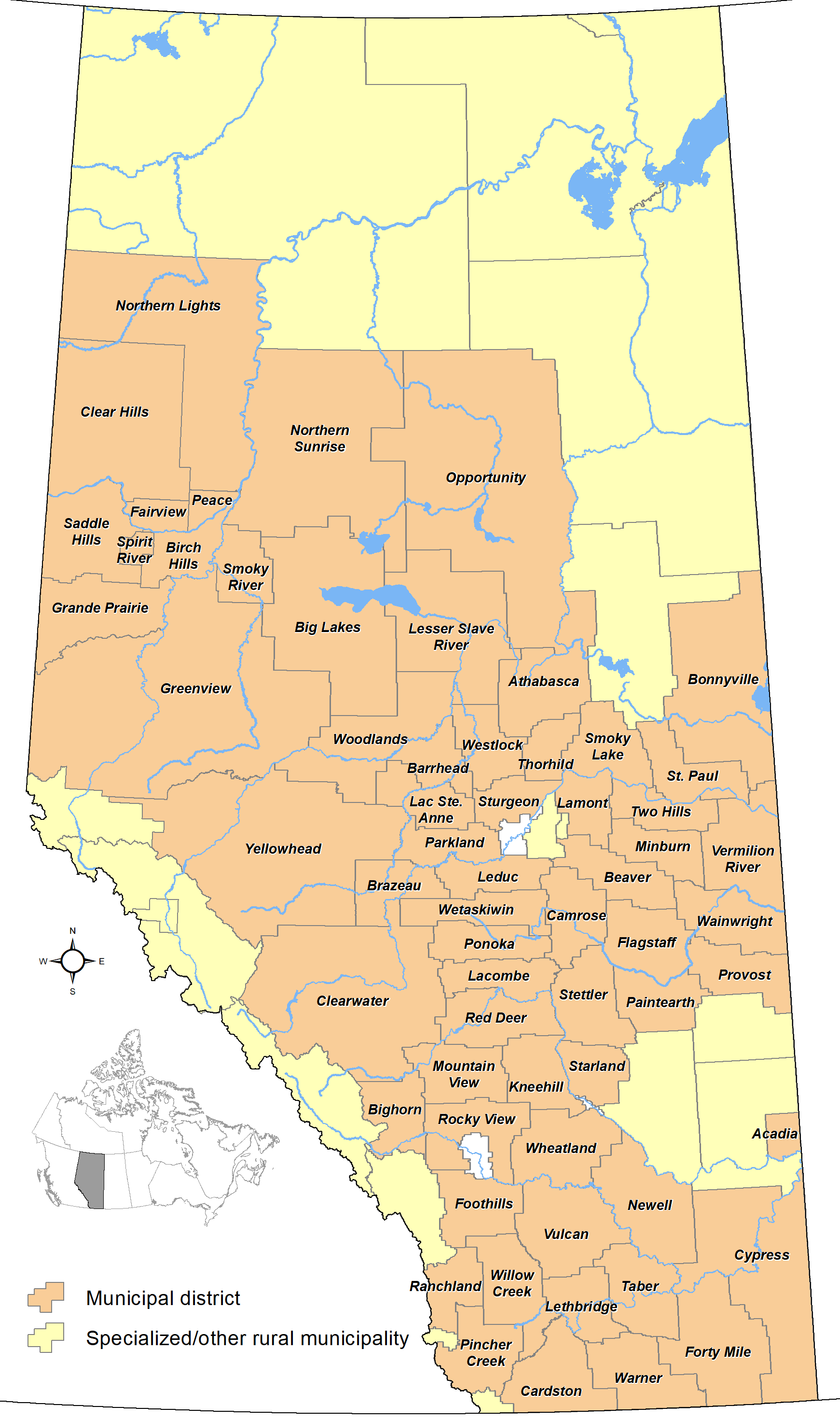 Map showing locations of Alberta's 63 municipal districts as of May 2020, with base reference features (major lakes and rivers).